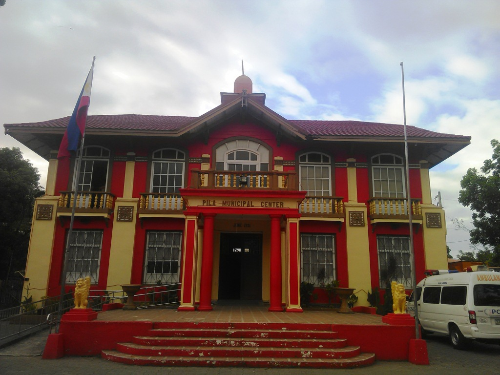 Pila Town Hall